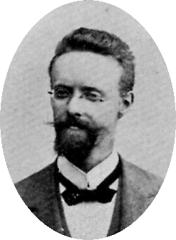 Image scanned from the book "Svenskt Porträttgalleri XX - Arkitekter, Bildhuggare, Målare m.fl. " ("Swedish Portrait Gallery XX - Architects, Sculptors, Painters, ") published 1901